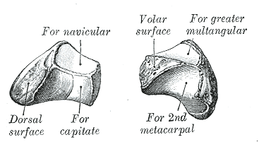 The left lesser multangular bone.